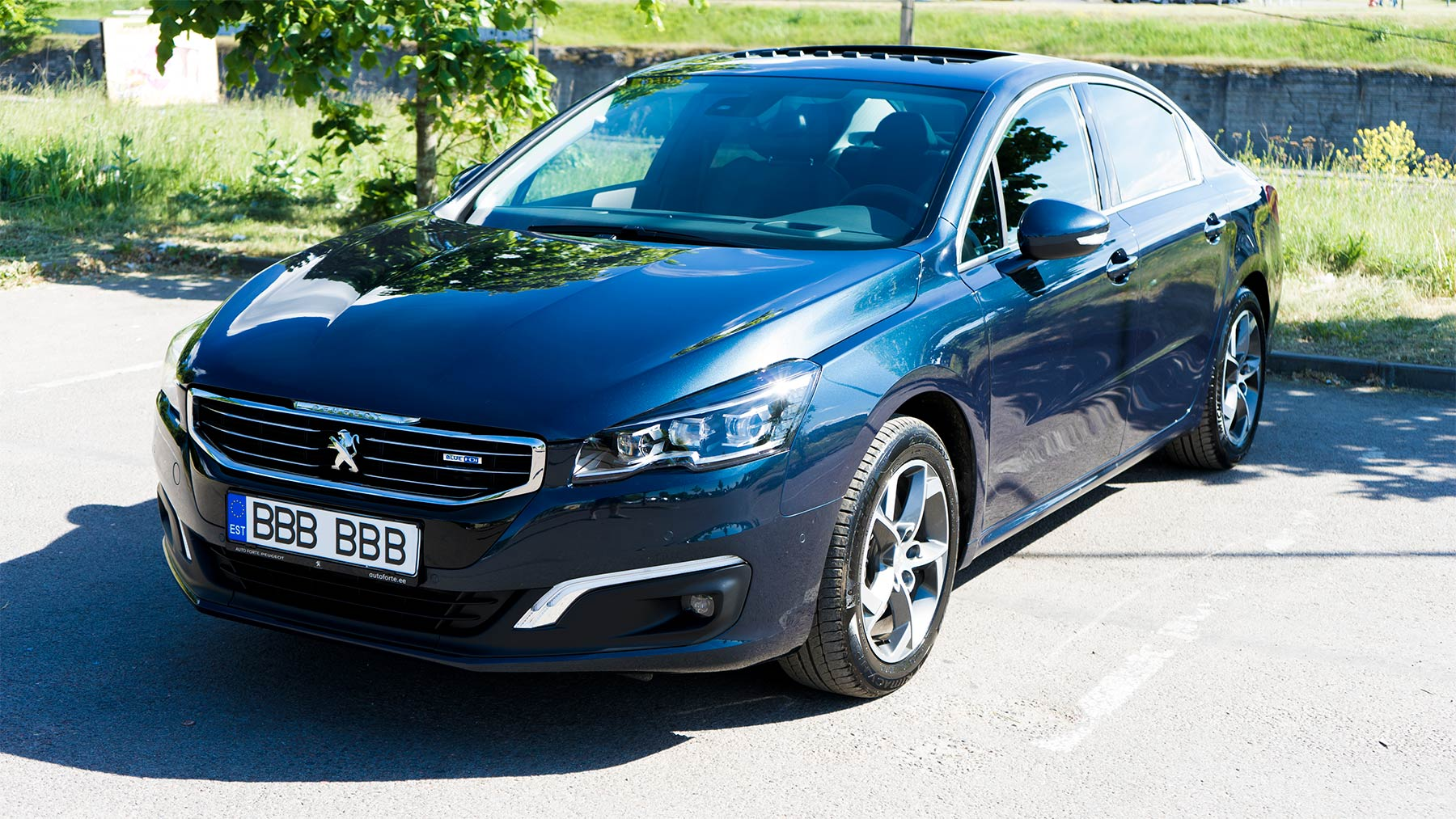 2016 Peugeot 508 Sedan with Blue HDi 133 KWh/180 BHP engine in Bourrasque Blue